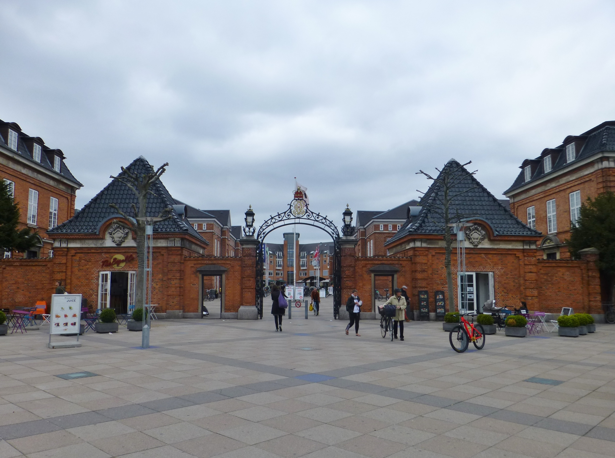 The square Østerfælled Torv in Østerbro in Copenhagen. Entrance from Gunnar nu Hansens Plads.